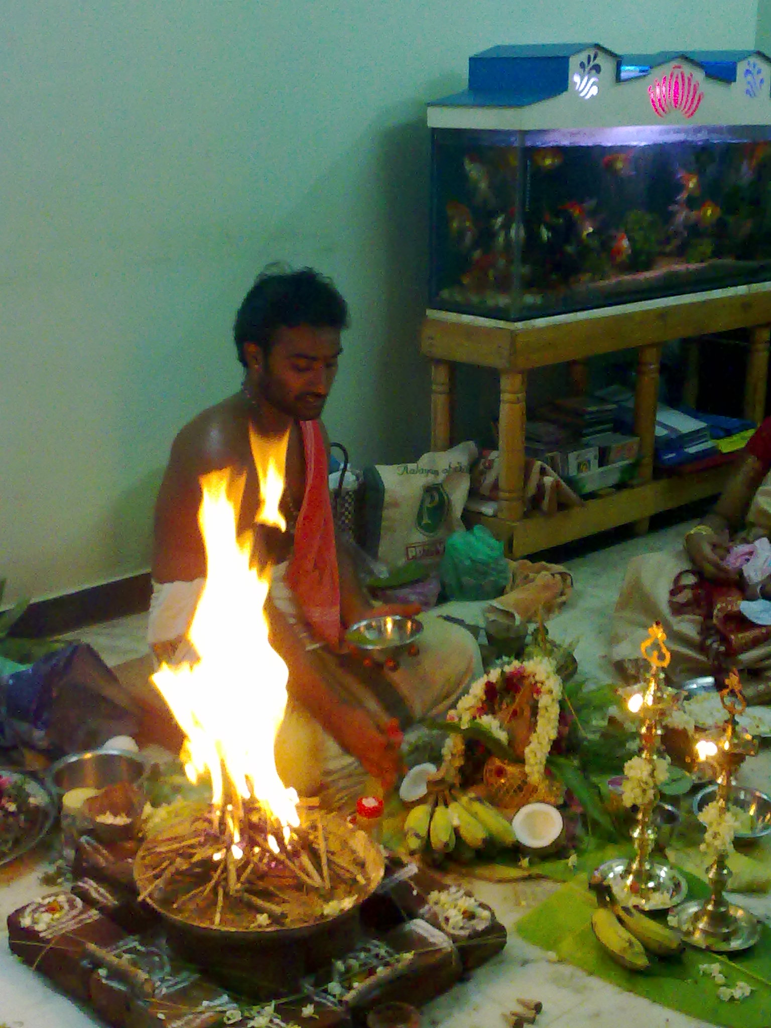 A tamil brahmin conducting pooja